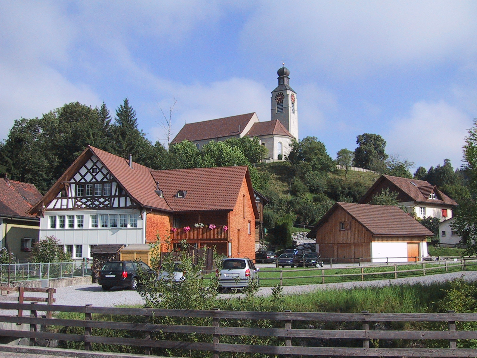 Church of Zuzwil, Canton of St. Gallen